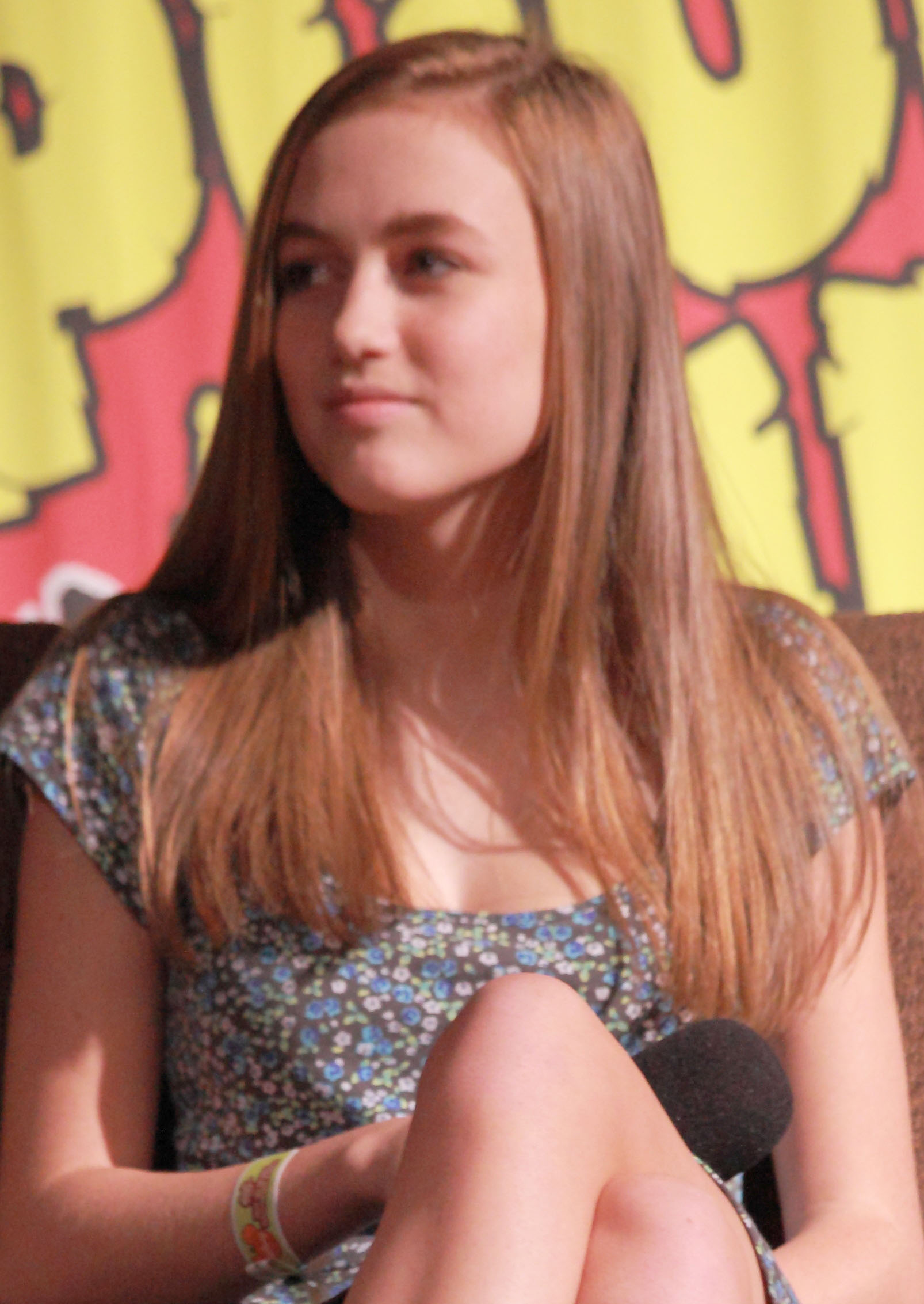 Madison Lintz ("Sophia") from "The Walking Dead" at Spooky Empire's Ultimate Horror Weekend 2014 held in Orlando, Florida.